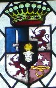 Armoiries de la famille Vedel